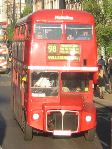 An unidentified Metroline Routemaster bus pictured on Oxford Steet operating route 98 to Willesden.